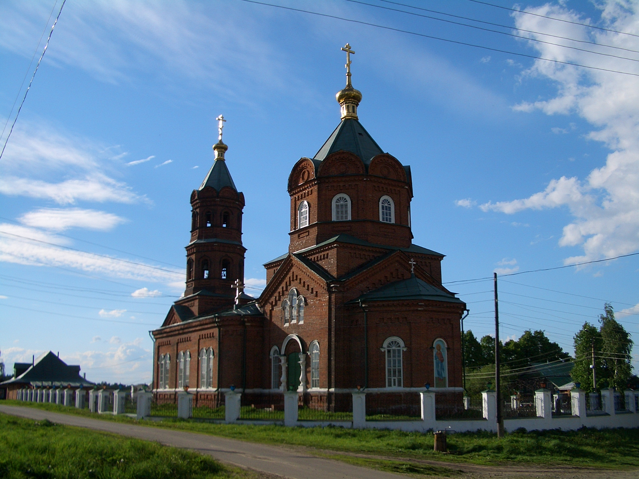 Church of Holy Life-Giving Trinity in Bezvodnoe, Nizhny Novgorod Oblast)